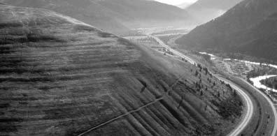 Description: Shorelines from Glacial Lake Missoula on the hills above Missoula, Montana. Source: National Park Service photograph from [1] Caption: Wave-cut strandlines cut into the slope at left in photo. These cuts record former high-water lines, or shorelines of Glacial Lake Missoula near Missoula, Montana. Gullies above the highway are the result of modern-day erosion.